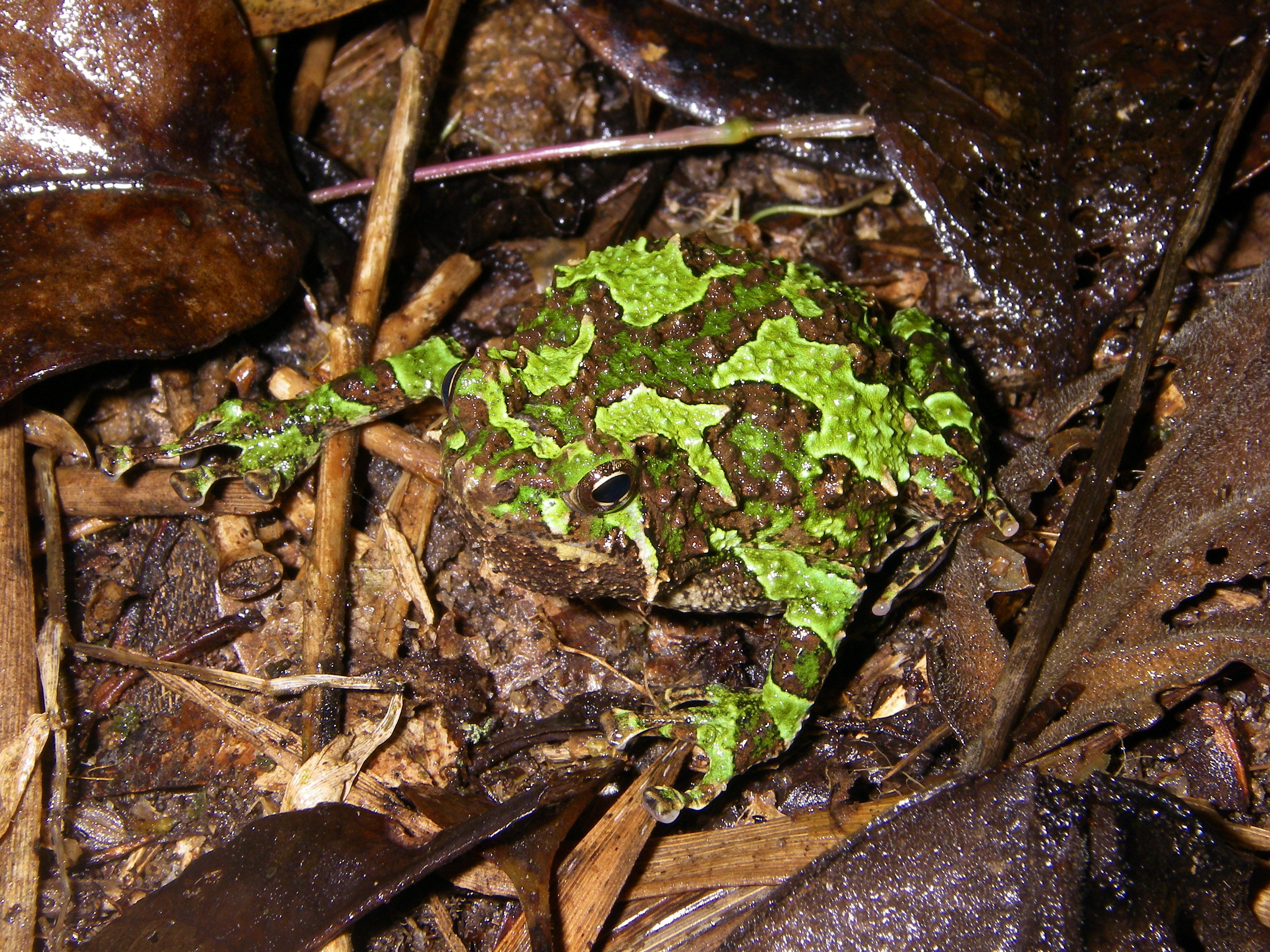 Scaphiophryne spinosa (Microhylidae, Scaphiophryninae), Ranomafana National Park, Madagascar